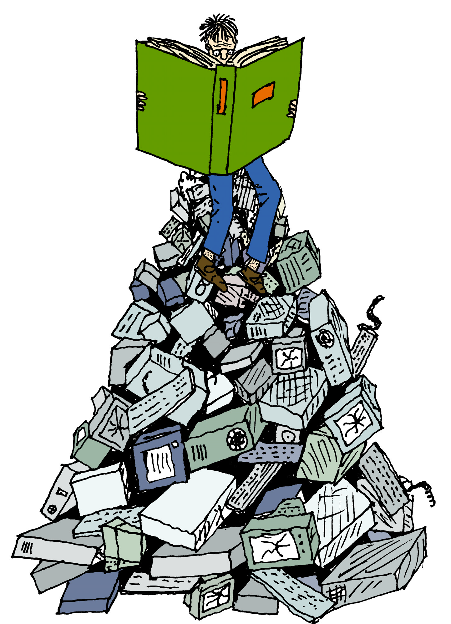 Achieving higher learning through the use of computers.